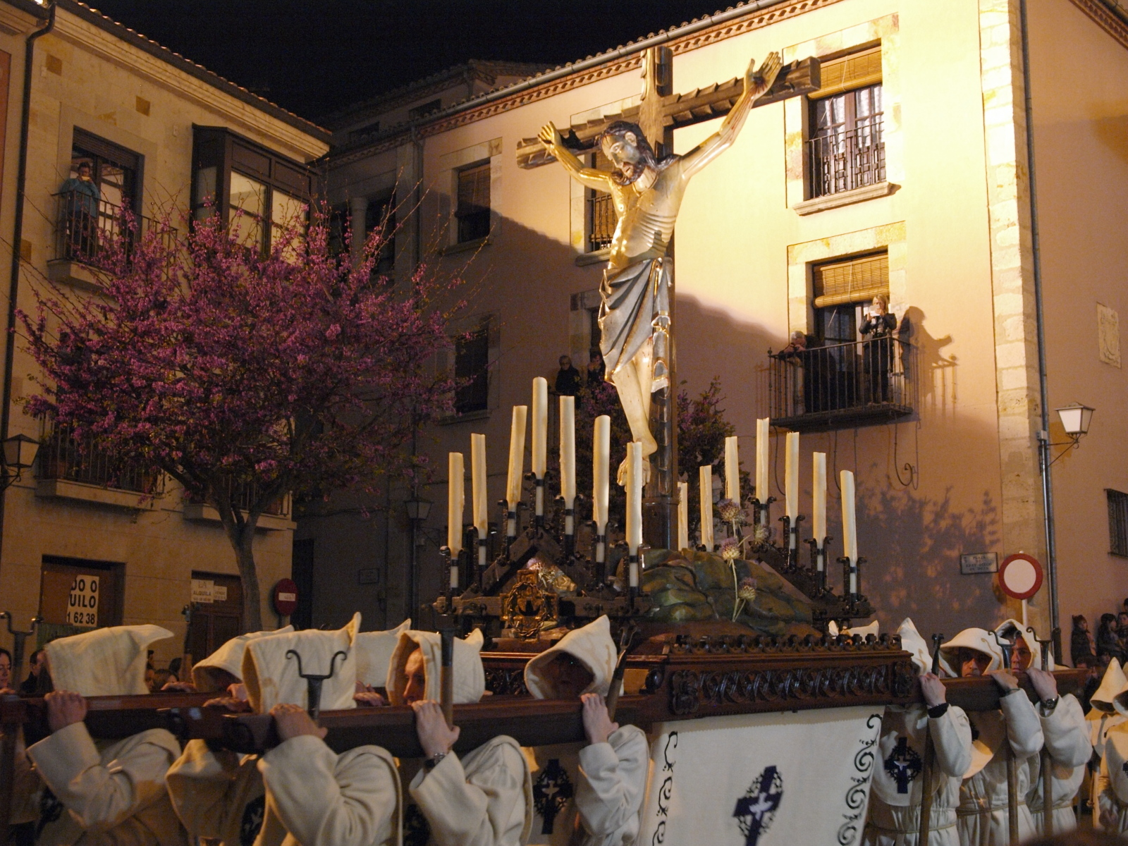 Religious parade of the Penitent Brotherhood of Christ of Saint Spirit (Hermandad Penitencial del Santísimo Cristo del Espíritu Santo), Zamora, Spain, Holy Week 2014